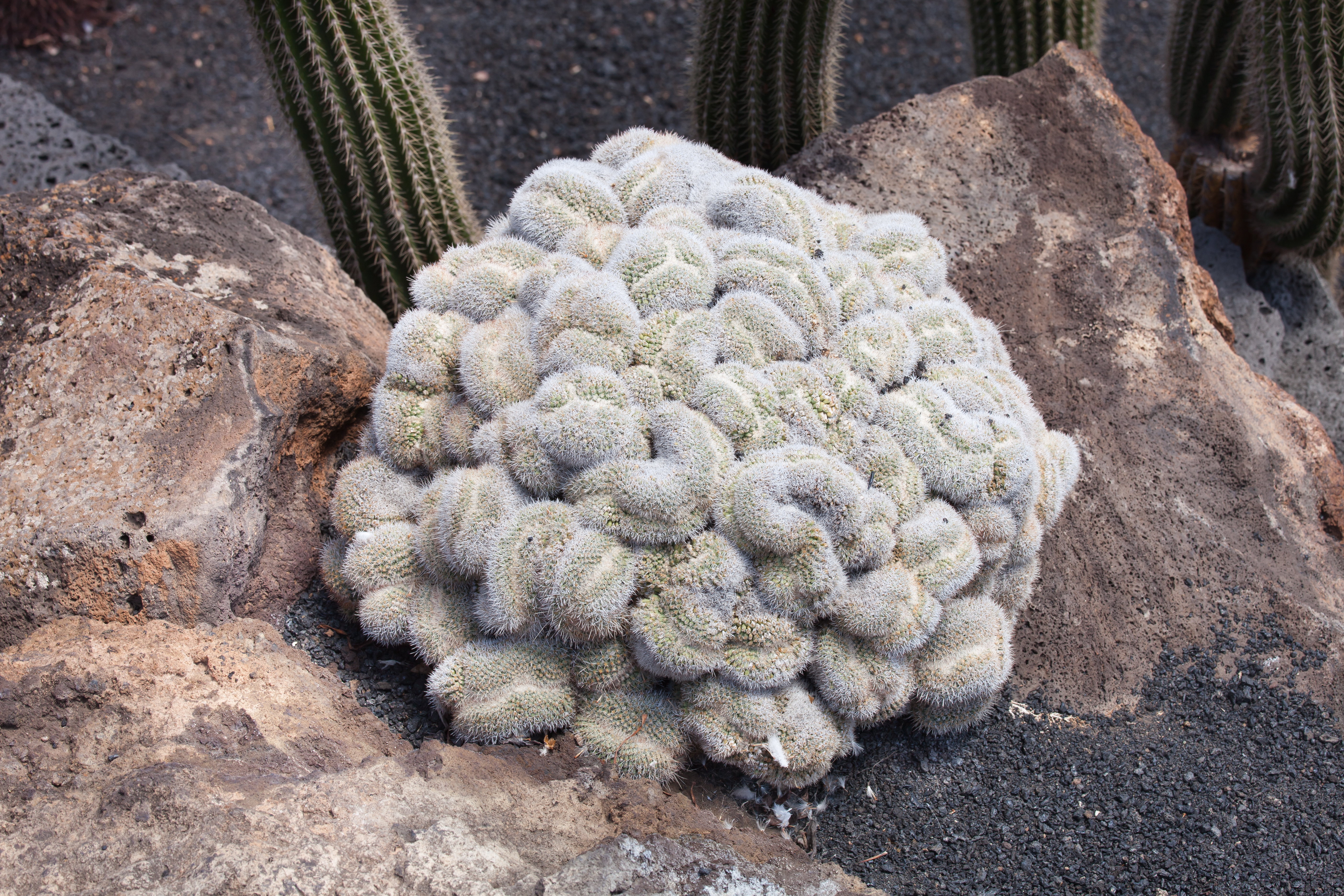 Mammillaria geminispina Haw. var. cristata. Jardín de Cactus, Lanzarote Determinada en por Juan Bibiloni